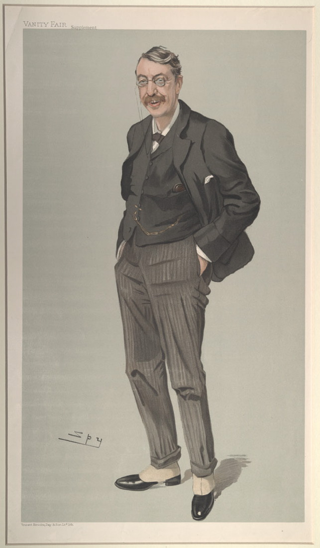 Men of the Day No.949: Caricature of Charles Villiers Standford (1852–1924), Irish composer. Caption read "He found Harmony".